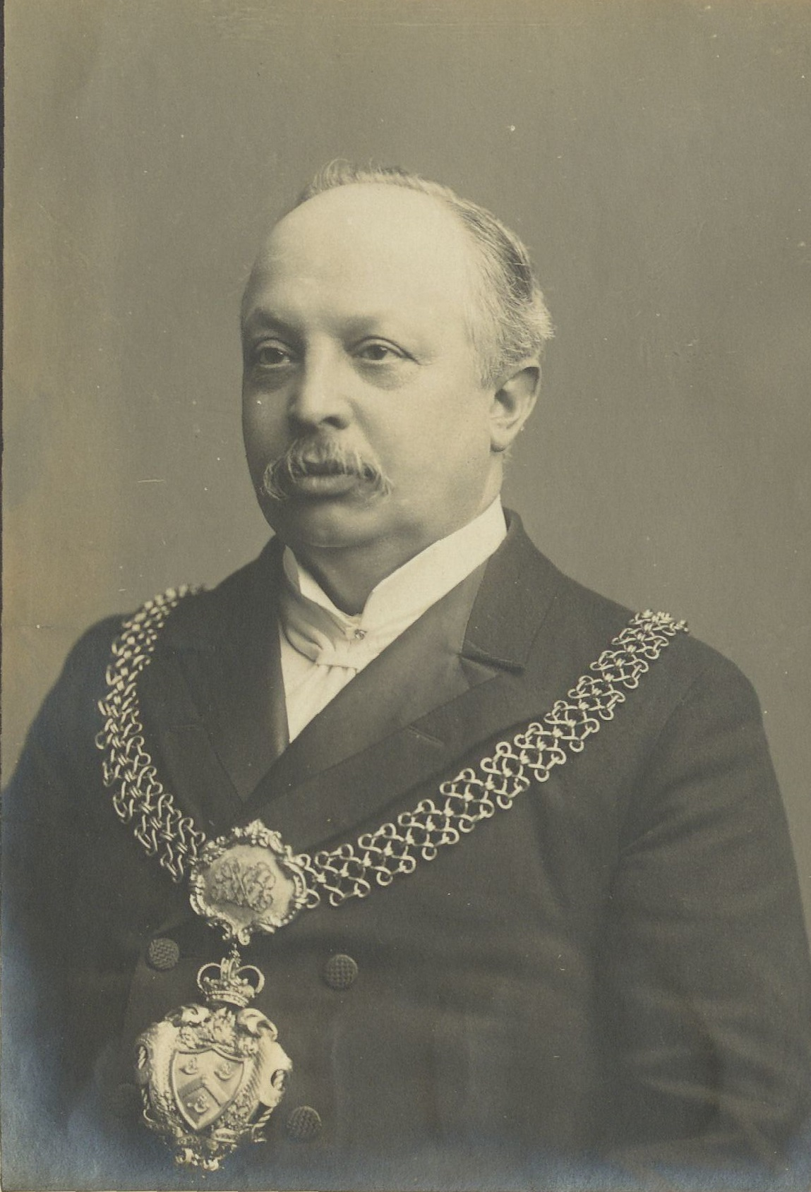 Image of Thomas Speight, Mayor of Bradford, Yorkshire, UK,1896-98 (improved version of Thomas Speight.jpg)